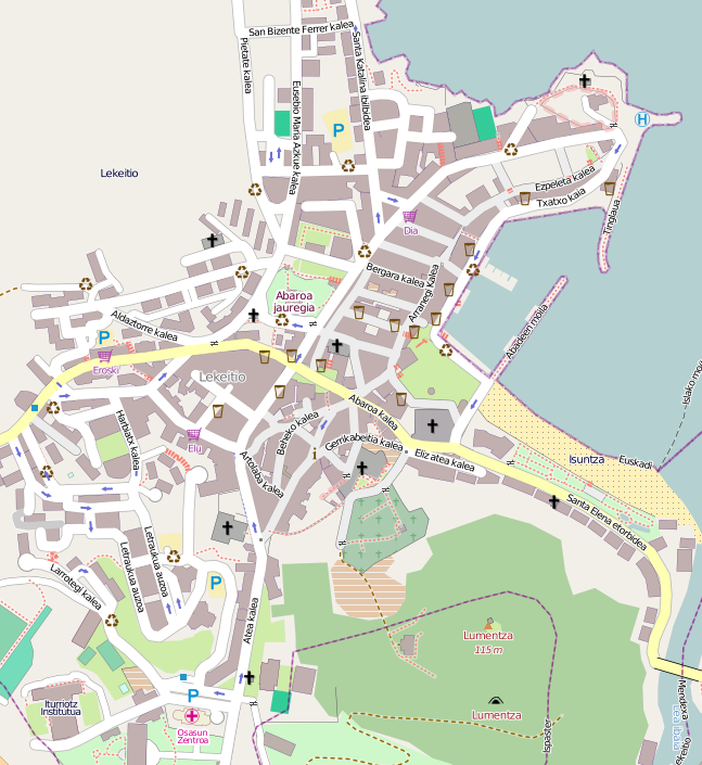 Map of Lekeitio, Biscay, Basque Country